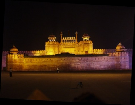 Taken by myself, 23 March 2006. Stevekeiretsu 16:36, 31 March 2006 (UTC)